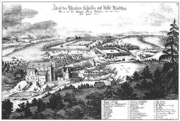 Castle Windhaag/Perg in Upper Austria, drawing from C. Beuttler, 1660.